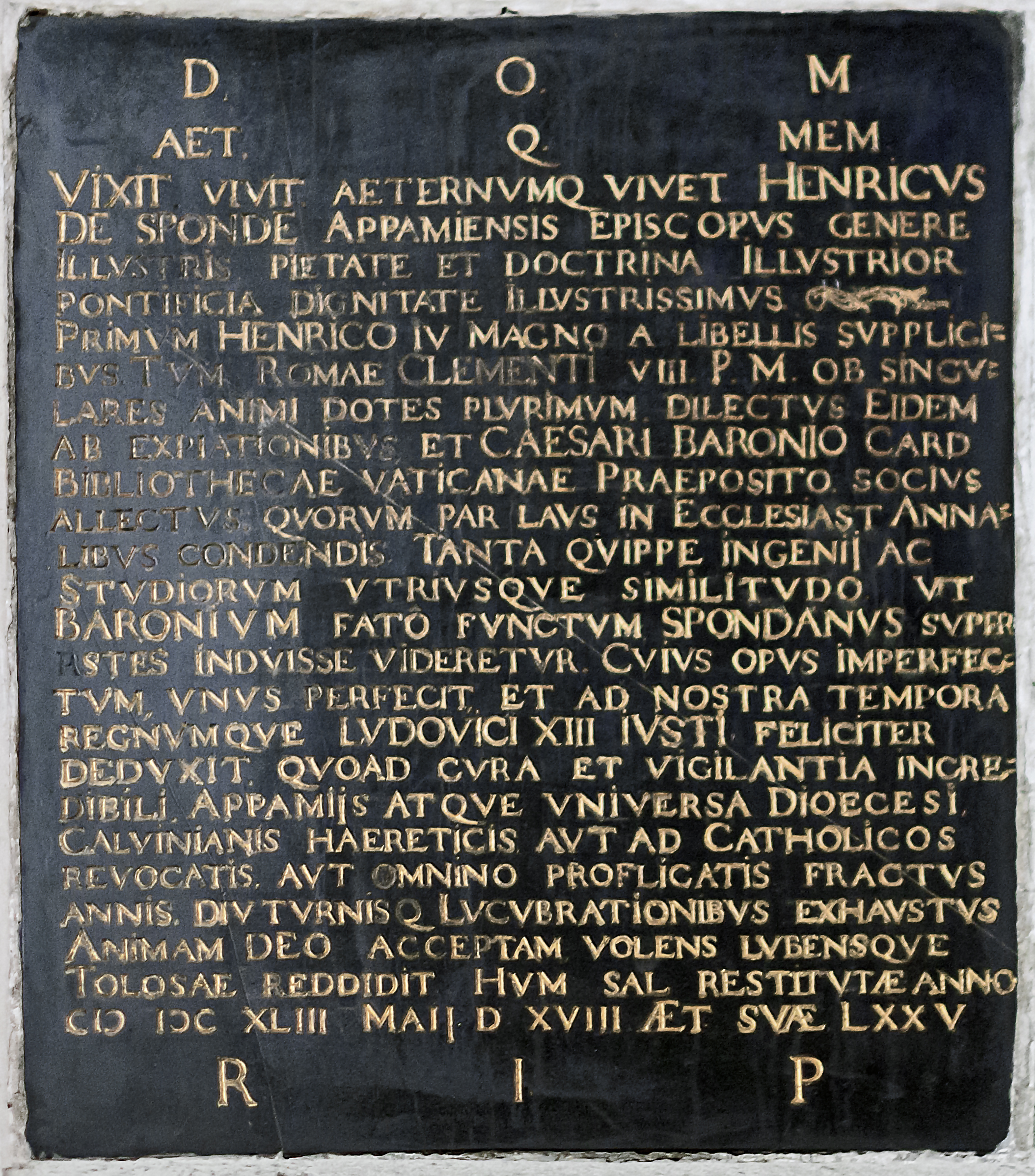 Funeral plate. of Henri de Sponde Cathedral Saint-Etienne Toulouse.